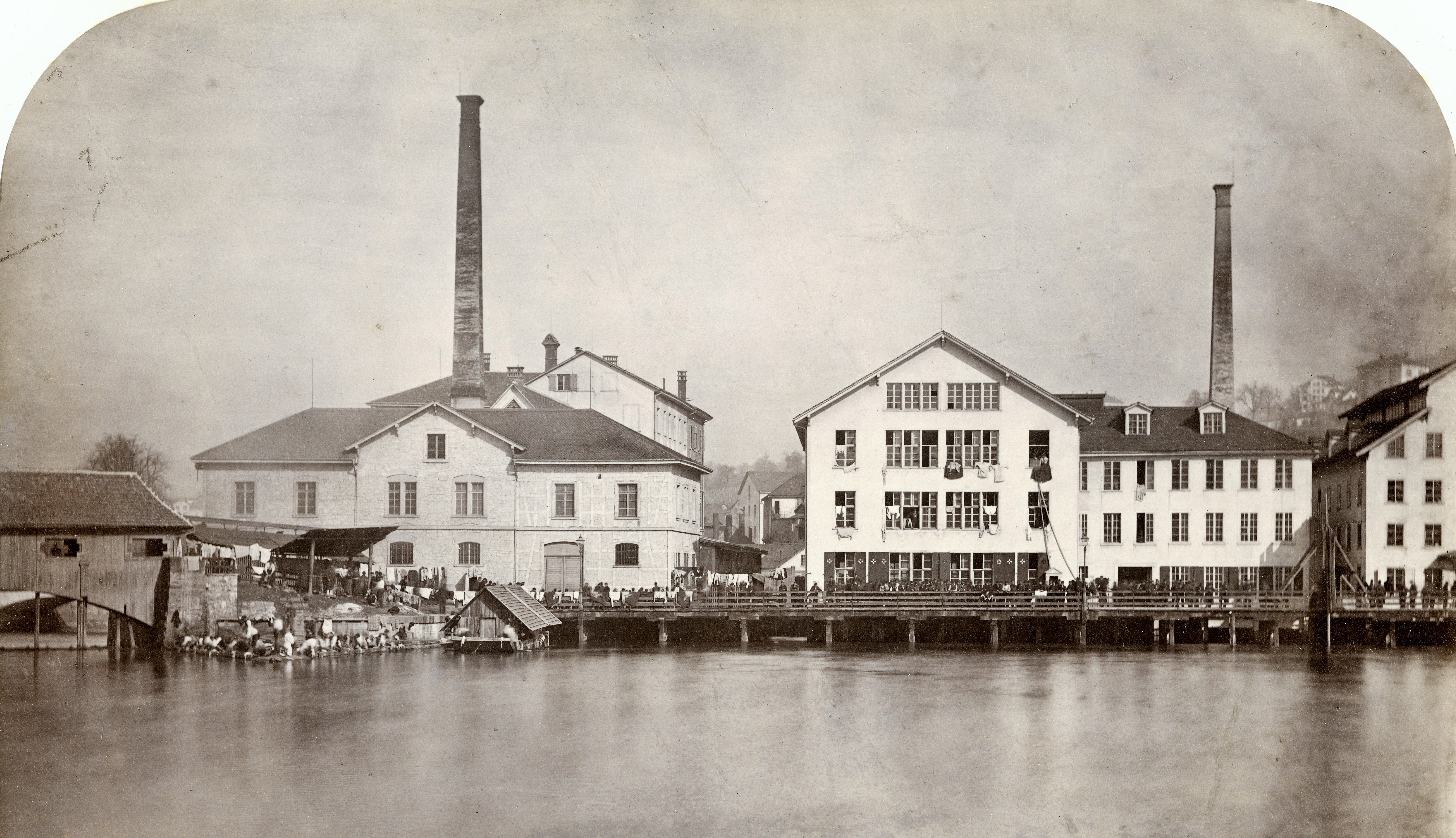 Unterer Mühlesteg 14 8 6, Zürich, Schweiz: Internierte Franzosen, 1871